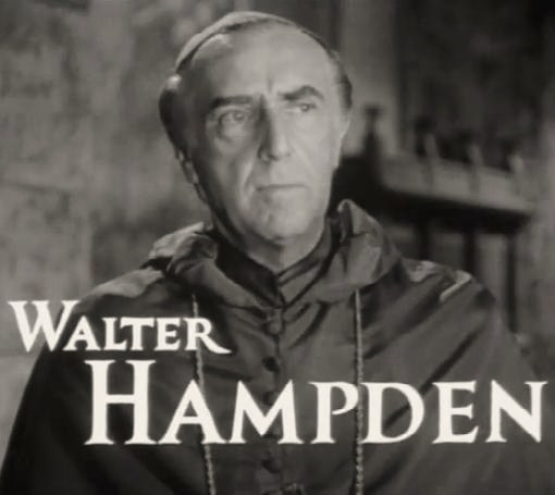 Walter Hampden in The Hunchback of Notre Dame - trailer (cropped screenshot)